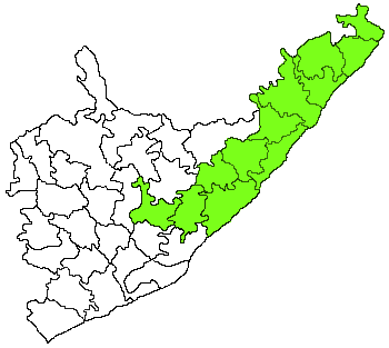 Tekkali revenue division in Srikakulam district (in Green)